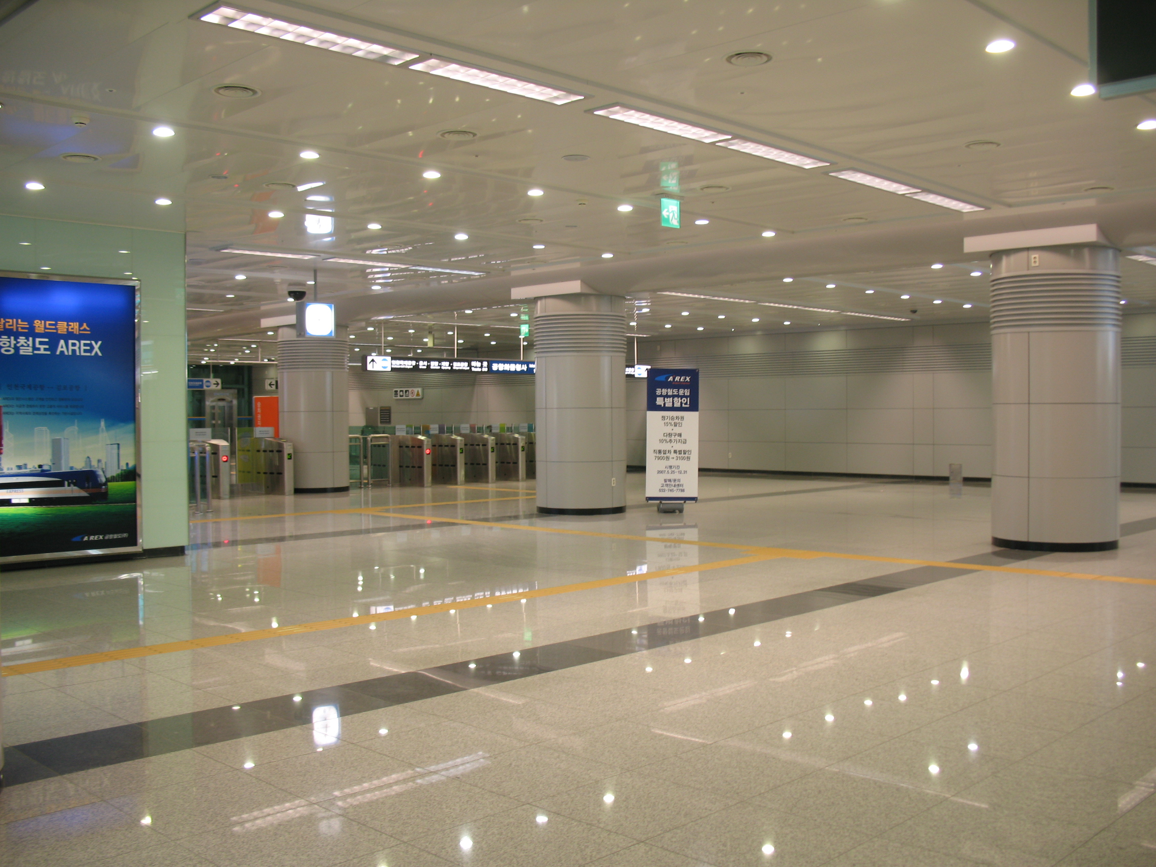 Incheon Int'l Airport Cargo Terminal Station Concourse.